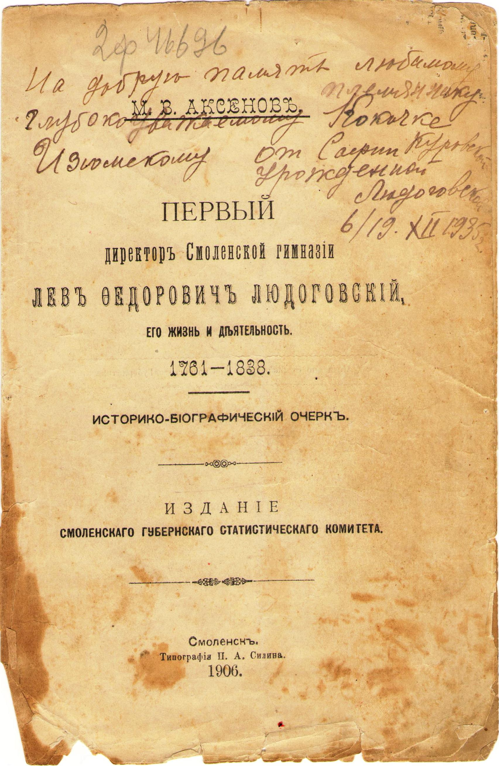 The title of the M. V. Aksyonov's book 'Lev Fedorovich Lyudogovskiy' (Smolensk, 1906)